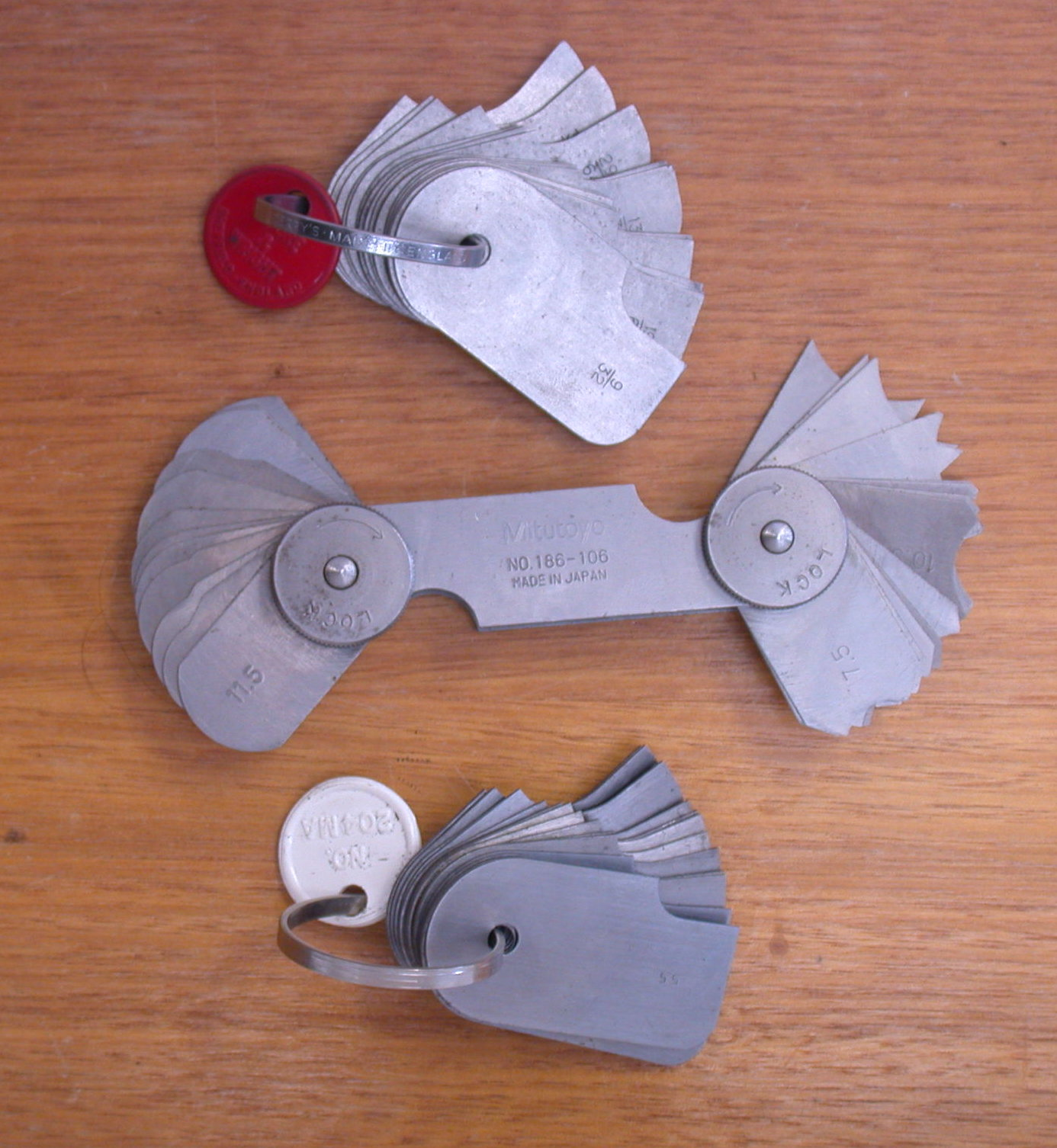 Photograph taken by Glenn McKechnie on the 24th March 2005. category:Gauges category:Technology